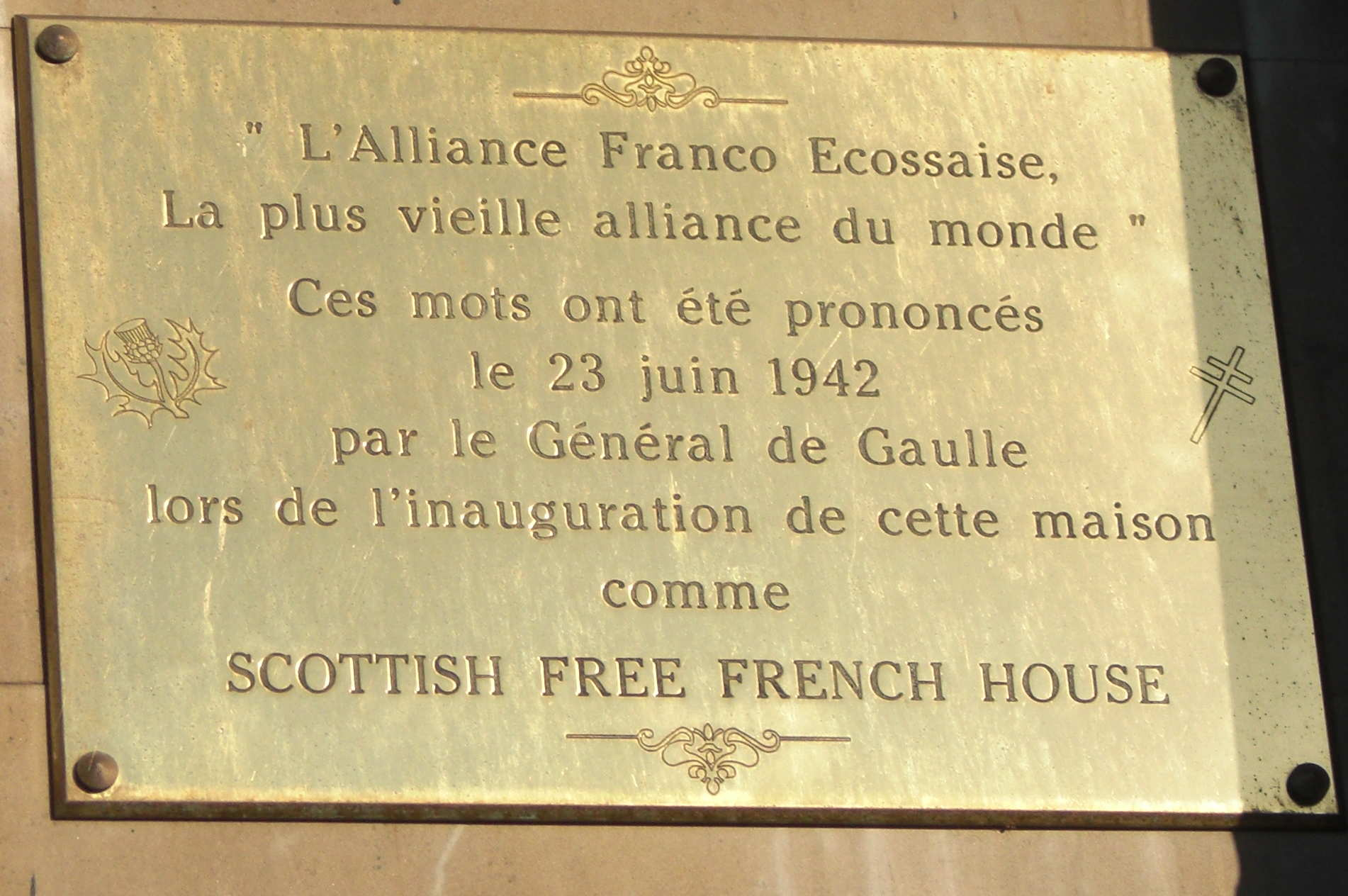 I took this picture of a plaque outside 28 Regent Terrace, Edinburgh in September 2009 with my camera.